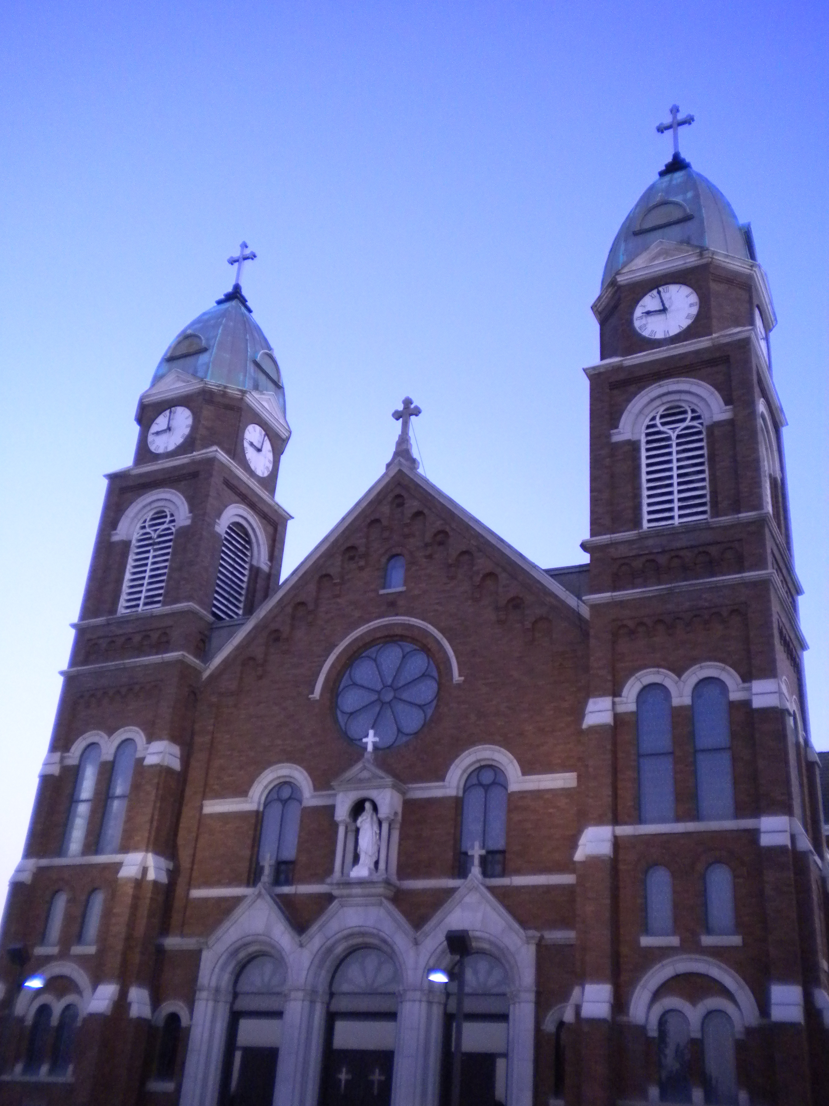 This beautiful church is in Alton, Iowa. It sits at what seems to be the highest part of town. I can see it from my deck in the next town, about 3 miles away. It is beautiful inside too.